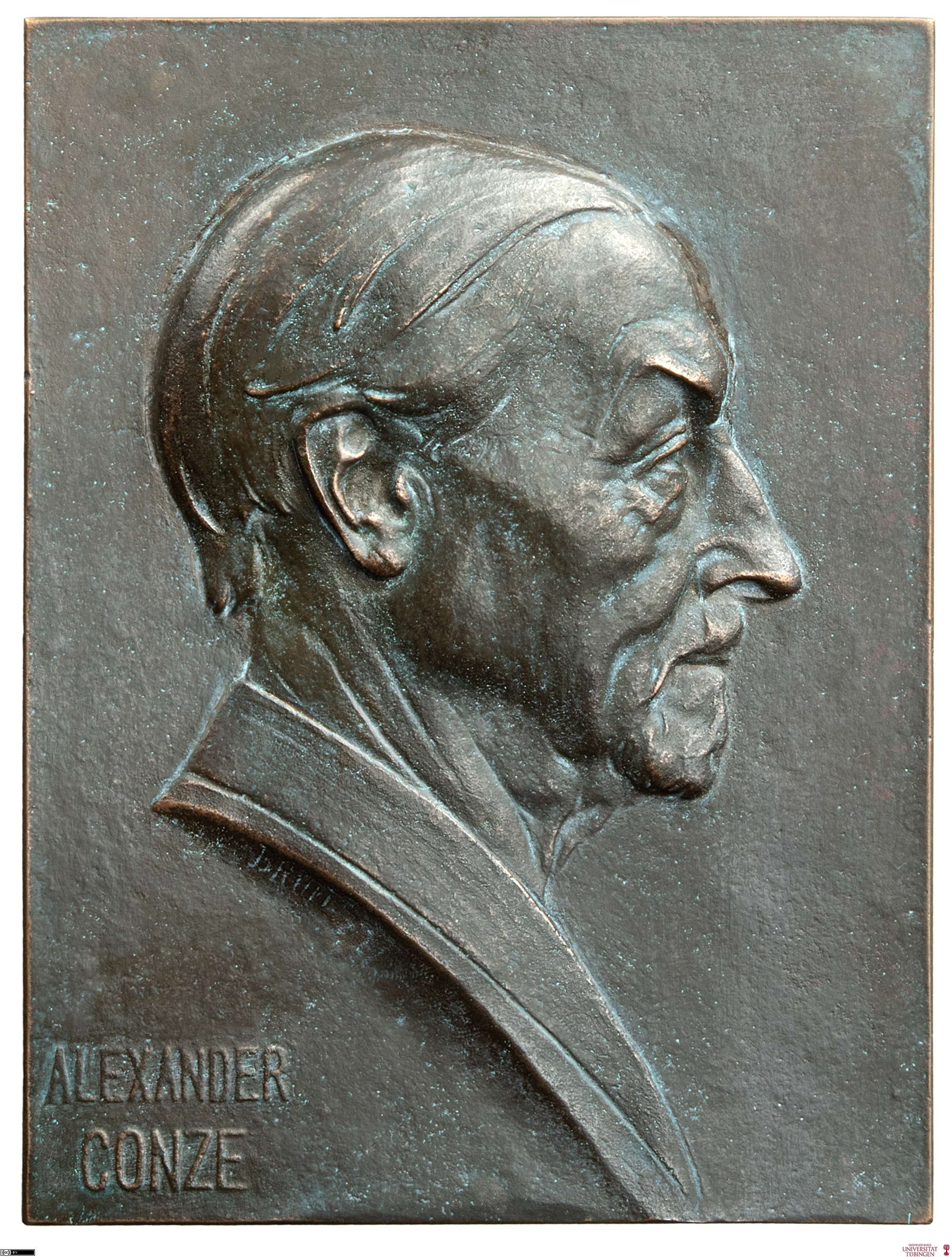 A plaque picturing the bust of the aged archaeologist Alexander Conze. Signed: BRÜTT, identifying the engraver as Adolf Brütt.